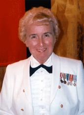 Captain Haydee Javier Kimmich first Hispanic female to reach the rank of Captain in the US Navy